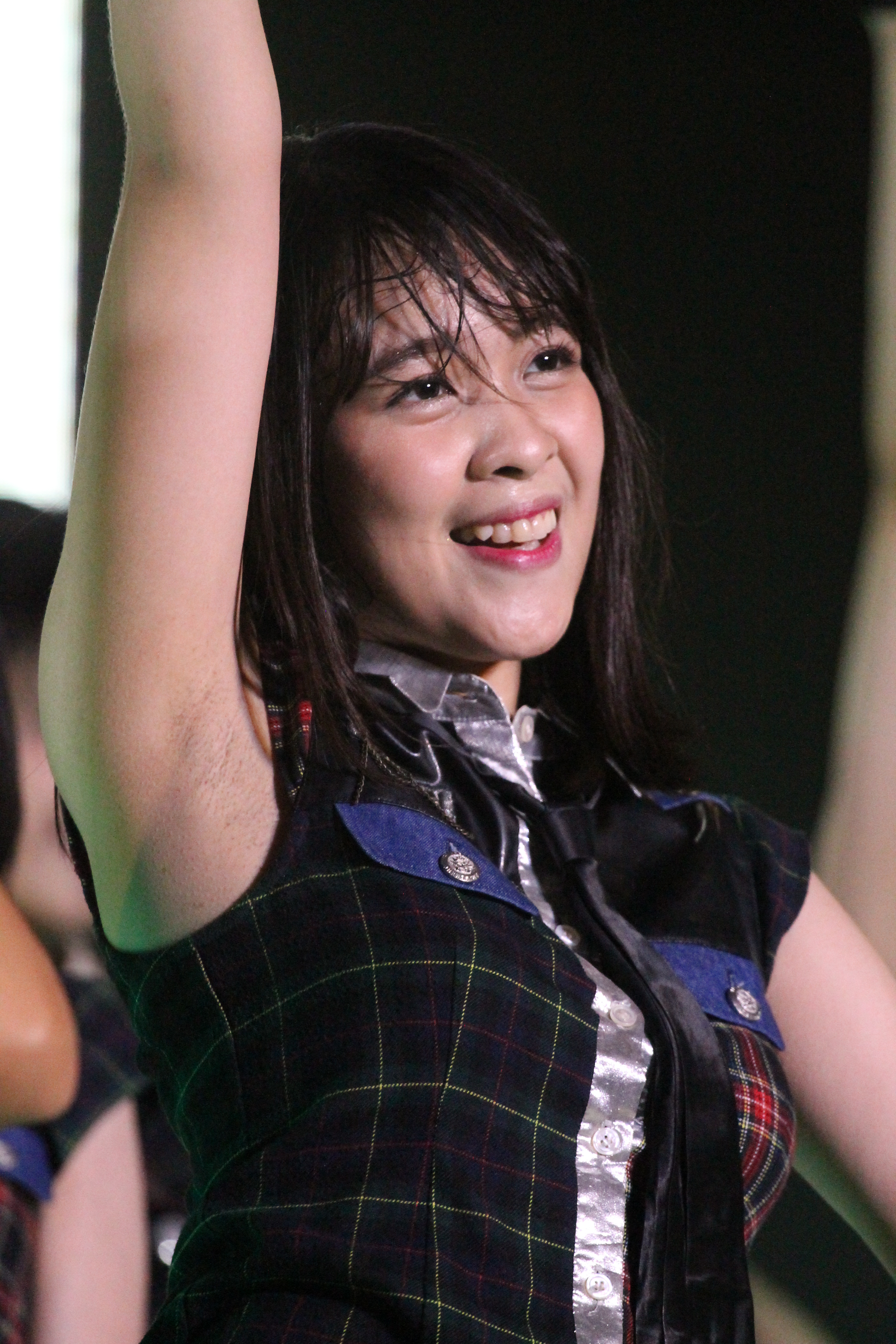 Anindhita Rahma Cahyadi (Anin) Tim KIII JKT48 Generation 3